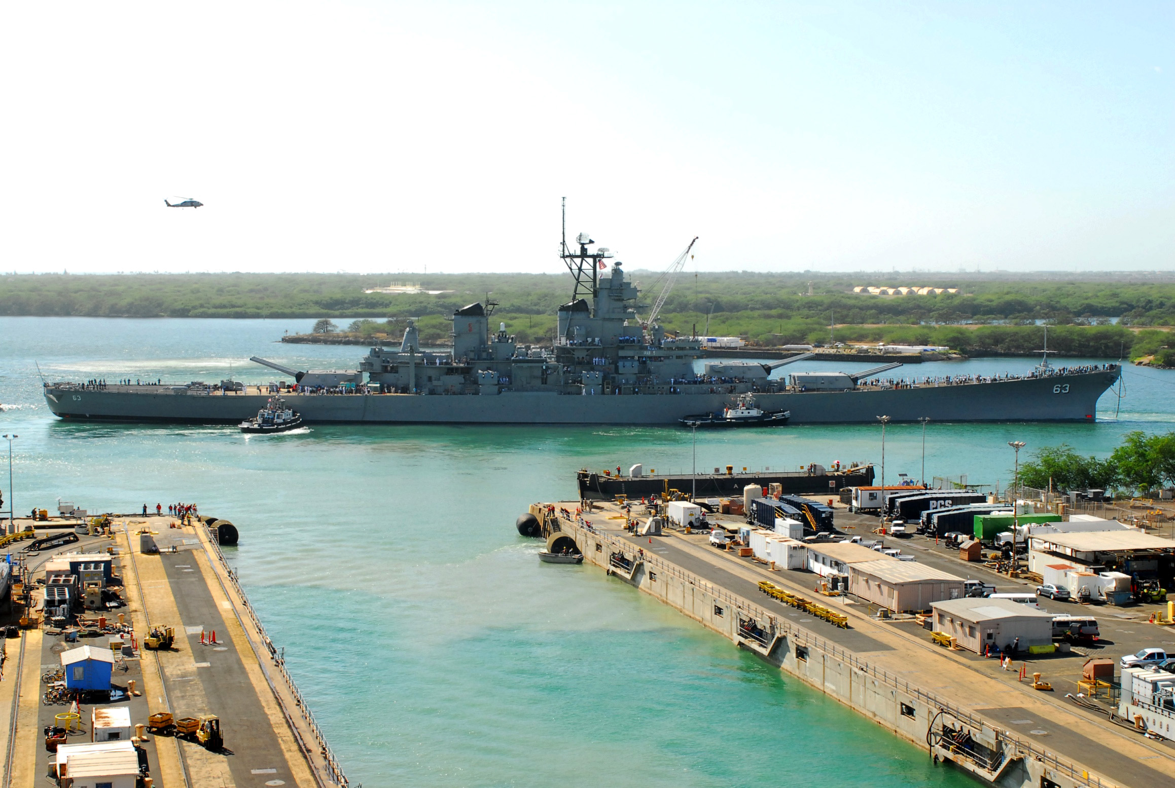 PEARL HARBOR (Jan. 7, 2010) The battleship EX-USS Missouri (BB 63) begins its 2-mile journey back to Ford Island after being undocked by hundreds of Pearl Harbor Naval Shipyard workers. (U.S. Navy photo by Machinist's Mate Fireman Dustan Longhini/Released)